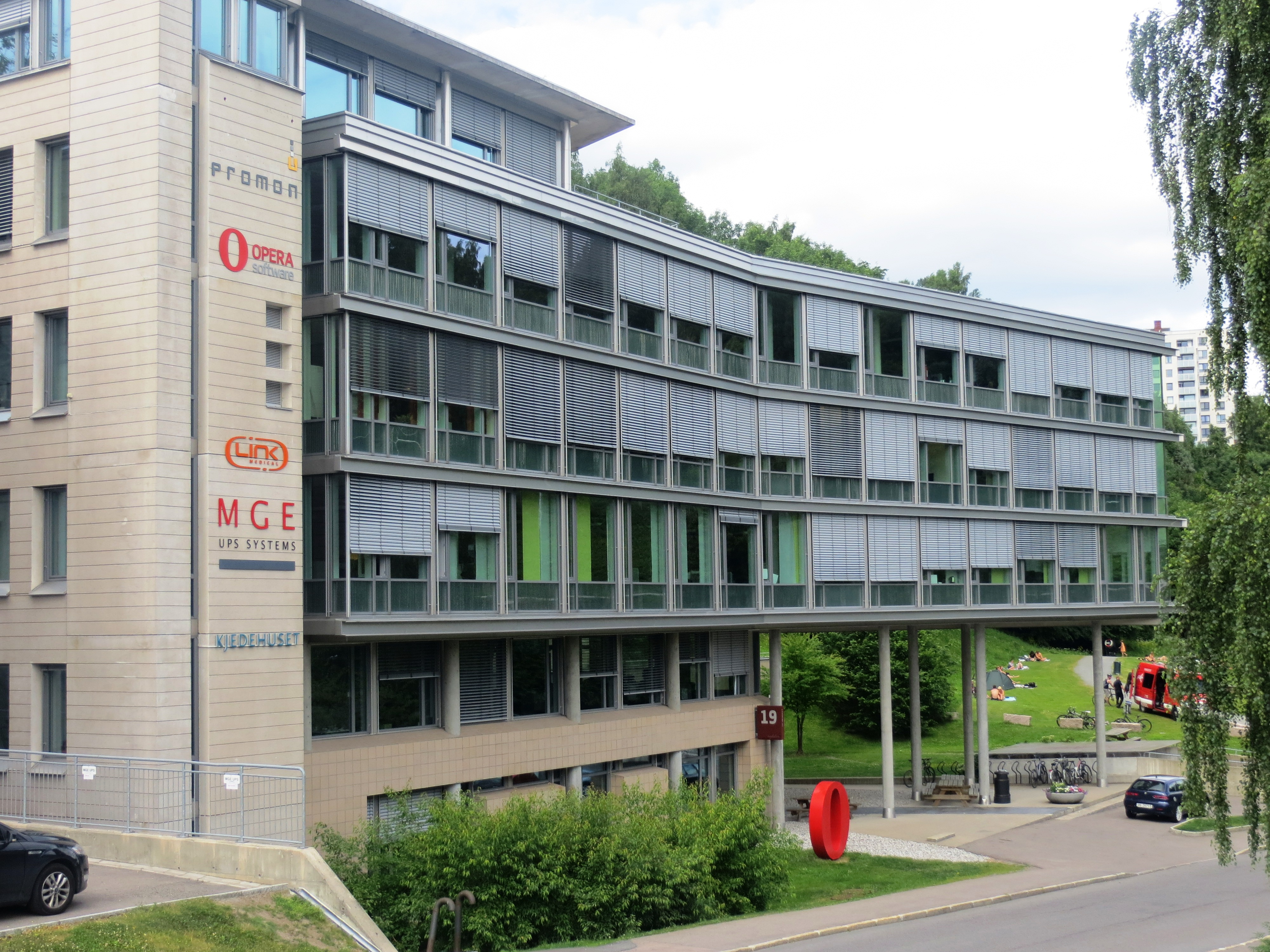 Opera Software, a software Company of Norway - headquarters in Nydalen, Oslo